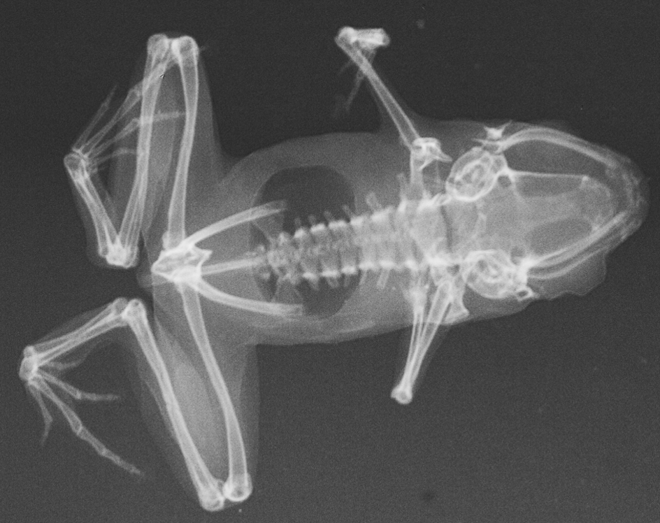 X-ray of a paratype of Paedophryne amauensis (LSUMZ 95002)